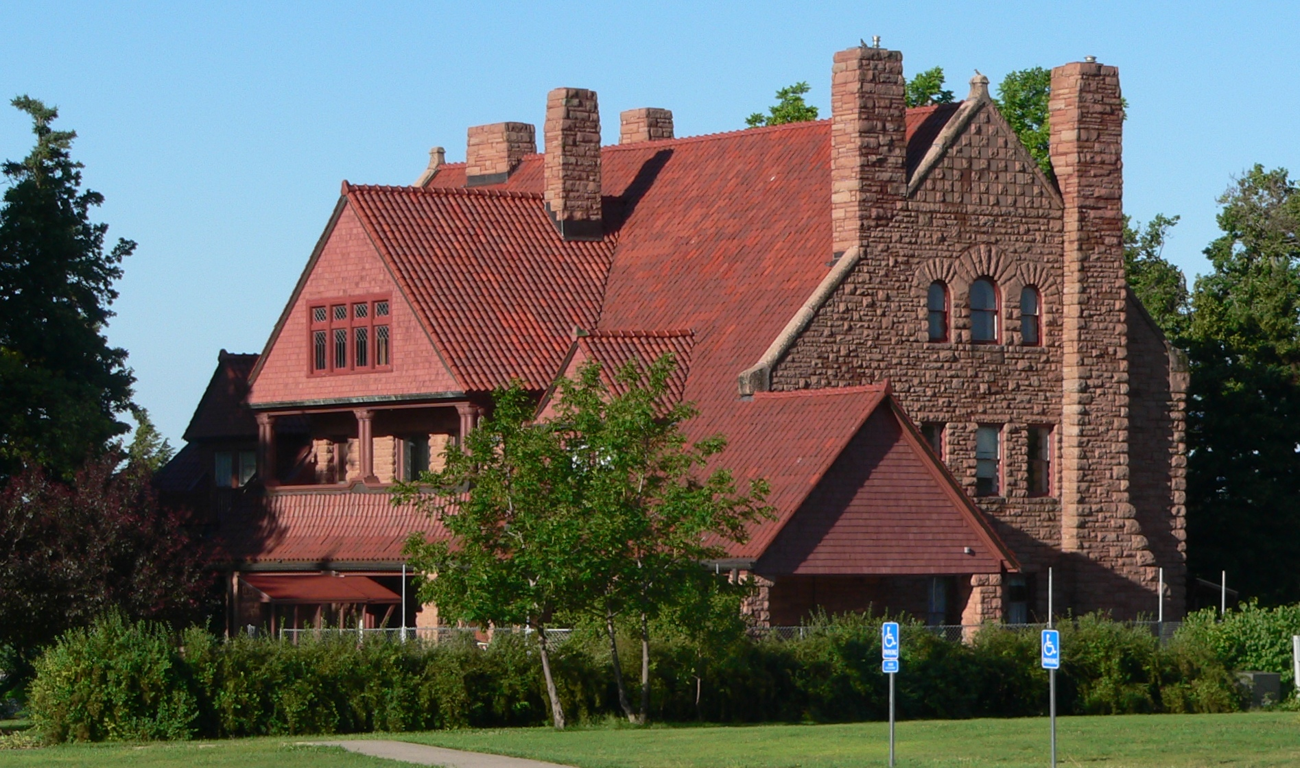 George W. Frank House, on the campus of the University of Nebraska at Kearney; seen from the northeast. Built in 1889, the house combines Richardsonian Romanesque and Shingle Style architecture. It is listed in the National Register of Historic Places. The university now operates the house as a museum.